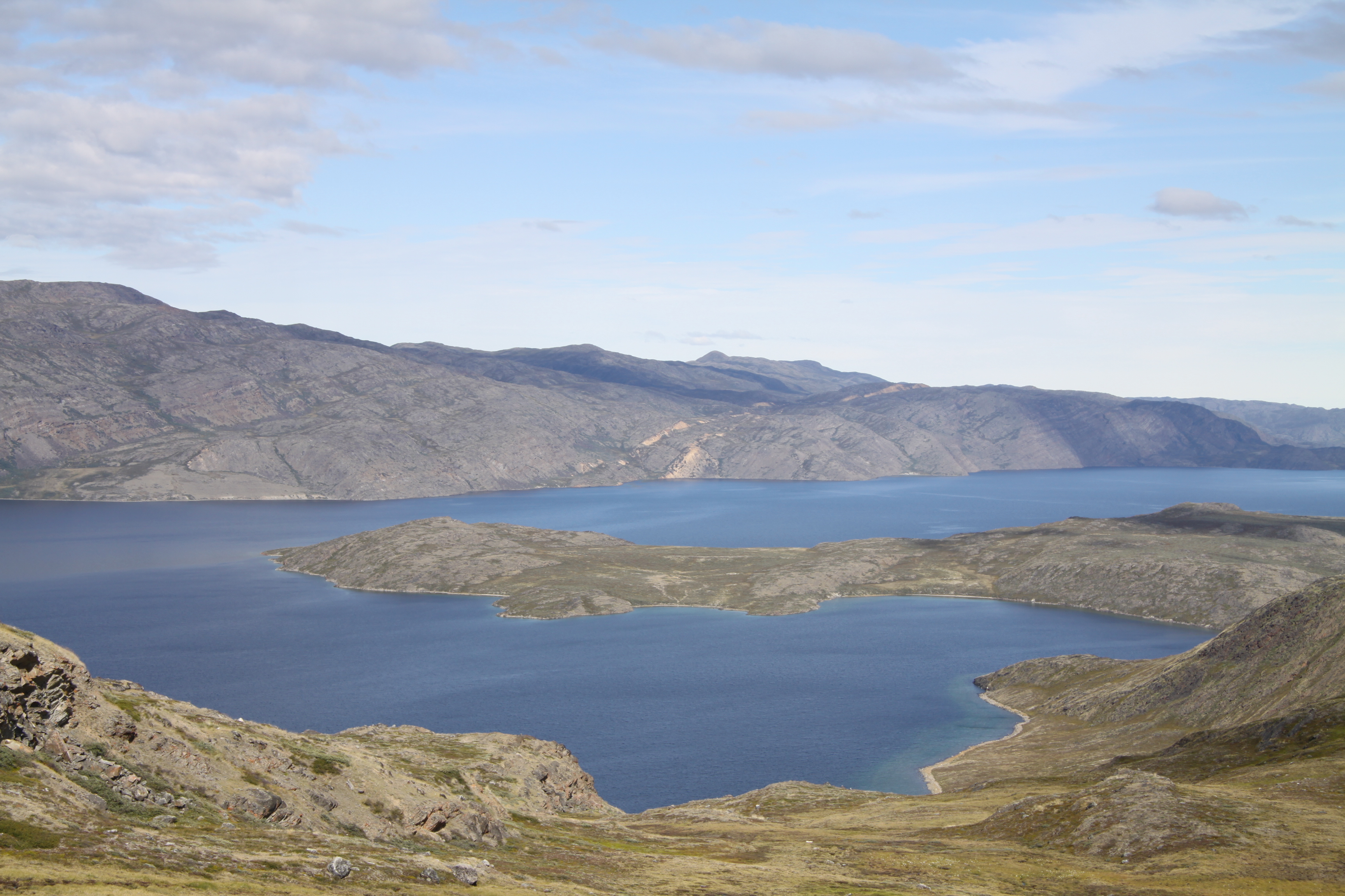 Tasersuaq lake photographed during Arctic Circle Trail, Greenland